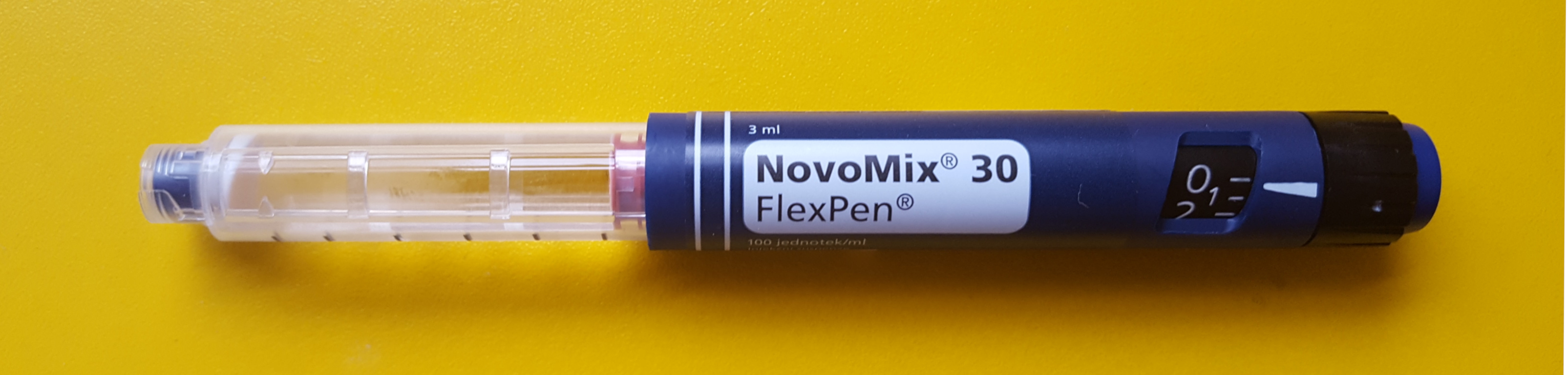 insulin analog 100 IU/1ml pen